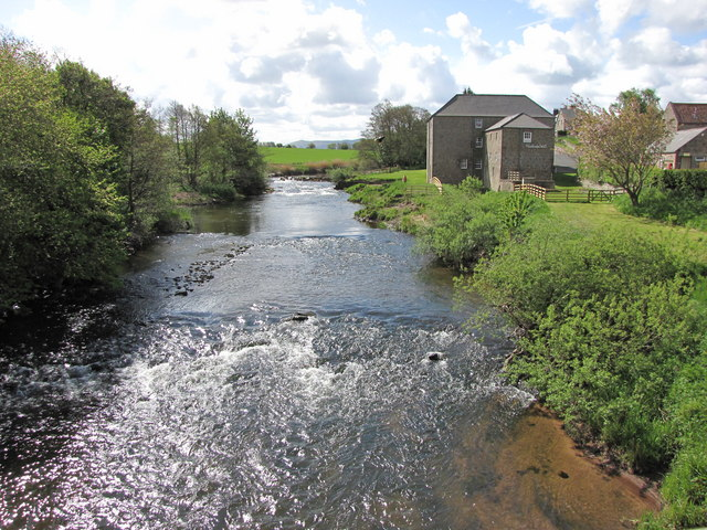 River Till at Heatherslaw Looking South back down the River Till towards Ford: this photograph was taken from the road bridge by Heatherslaw Mill at the start of the very pleasant 7 miles Ford circular walk.